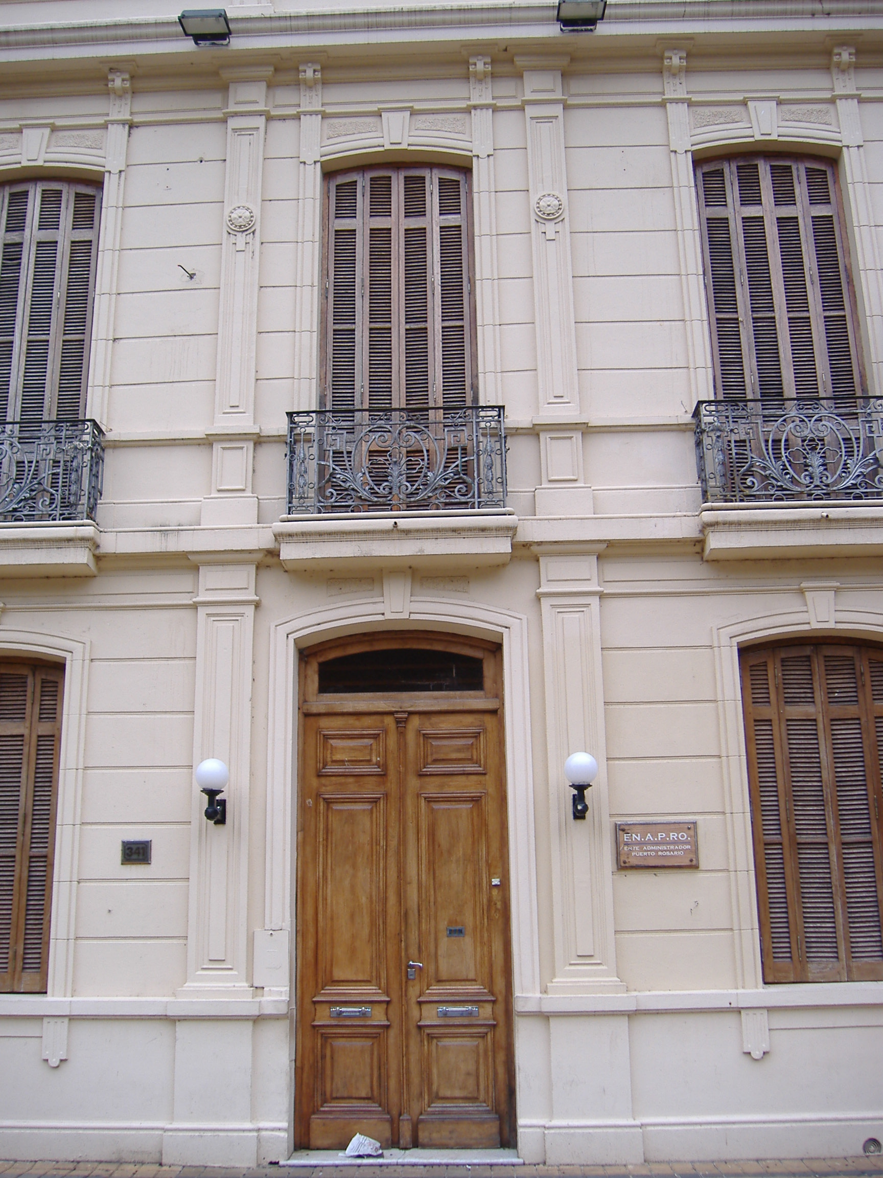 The seat of ENAPRO (Ente Administrador del Puerto de Rosario), manager of the Port of Rosario, Argentina